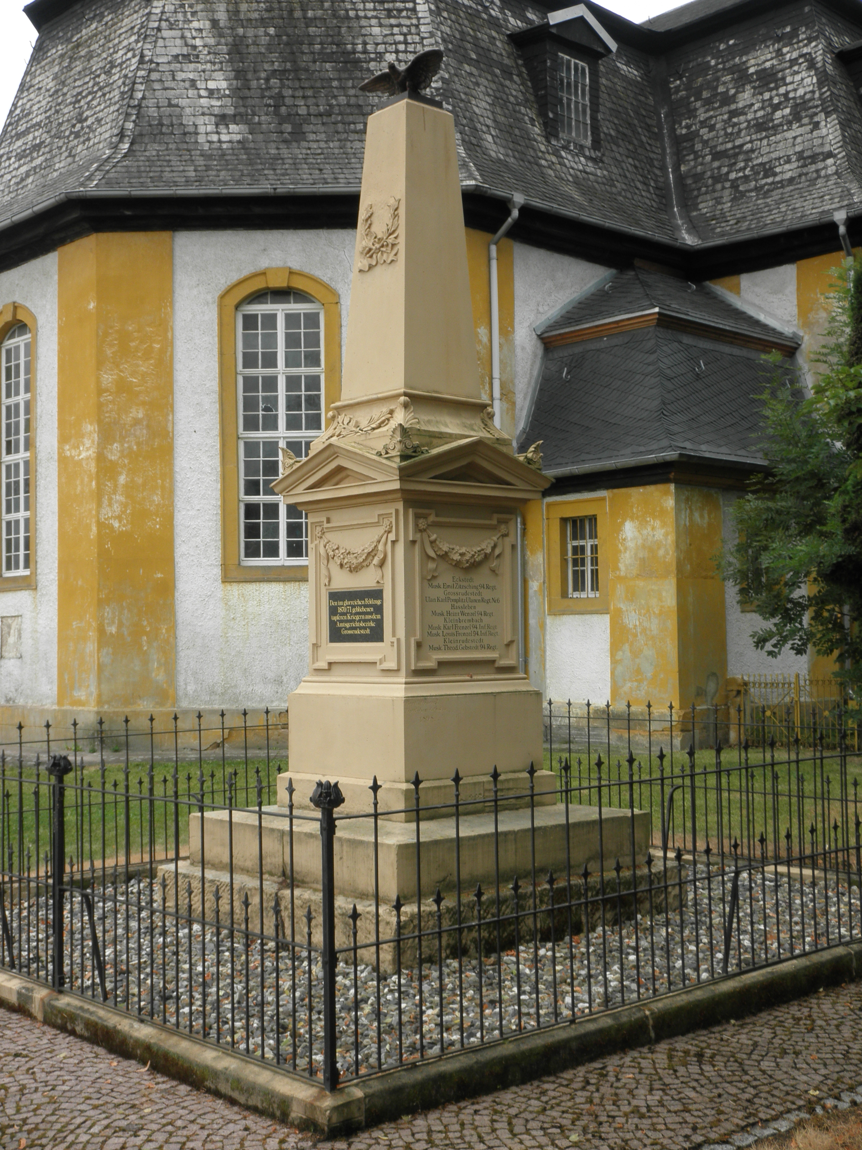 War Memorial in Großrudestedt